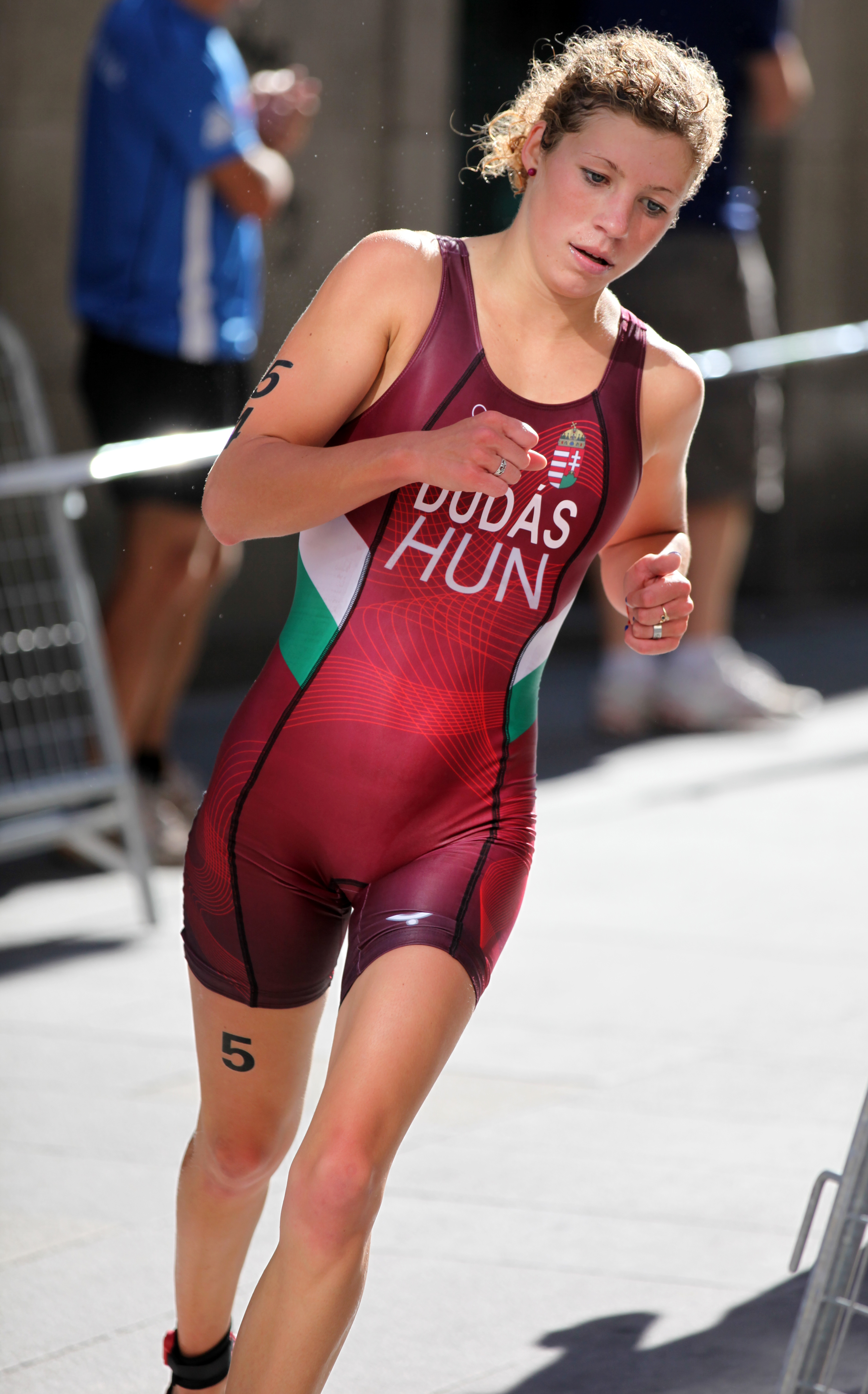 Eszter Dudás, silver medalist at the European Triathlon Championships in Pontevedra 2011.